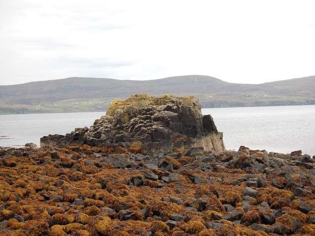 Lampay. Rocks at the southwest of the island of Lampay. The island is reachable on foot at low tide. Beyond is Loch Dunvegan.